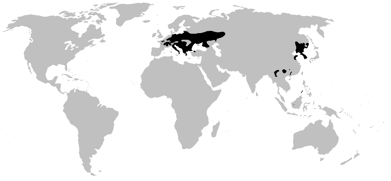 The range of the family Bombinatoridae.